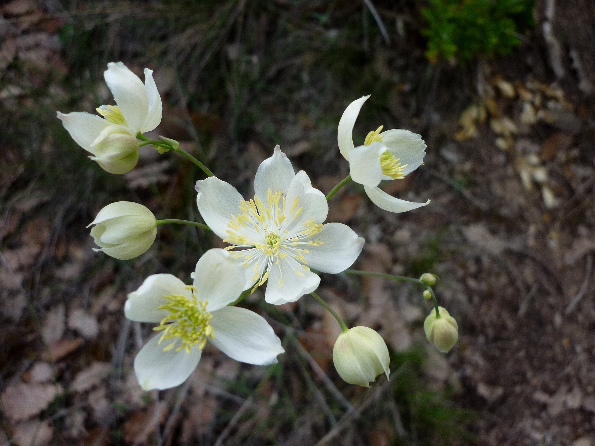 Thalictrum tuberosum. In Torà (Segarra - Catalunya). To 520 m. altitude.